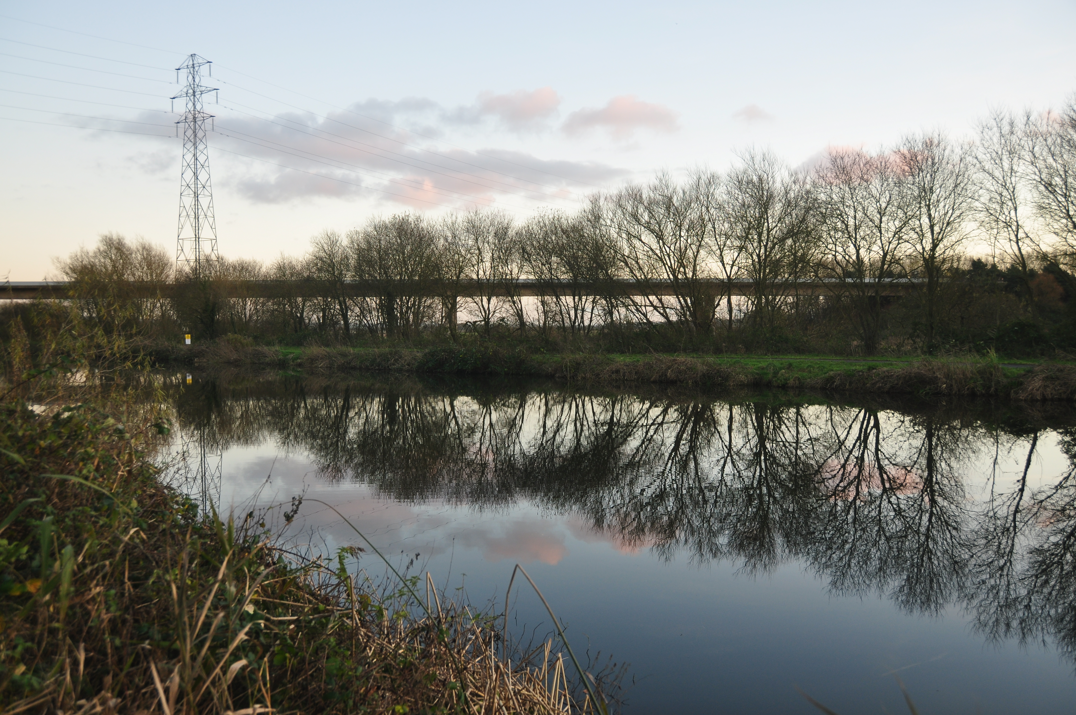 Exeter Canal near Old Sludge Beds